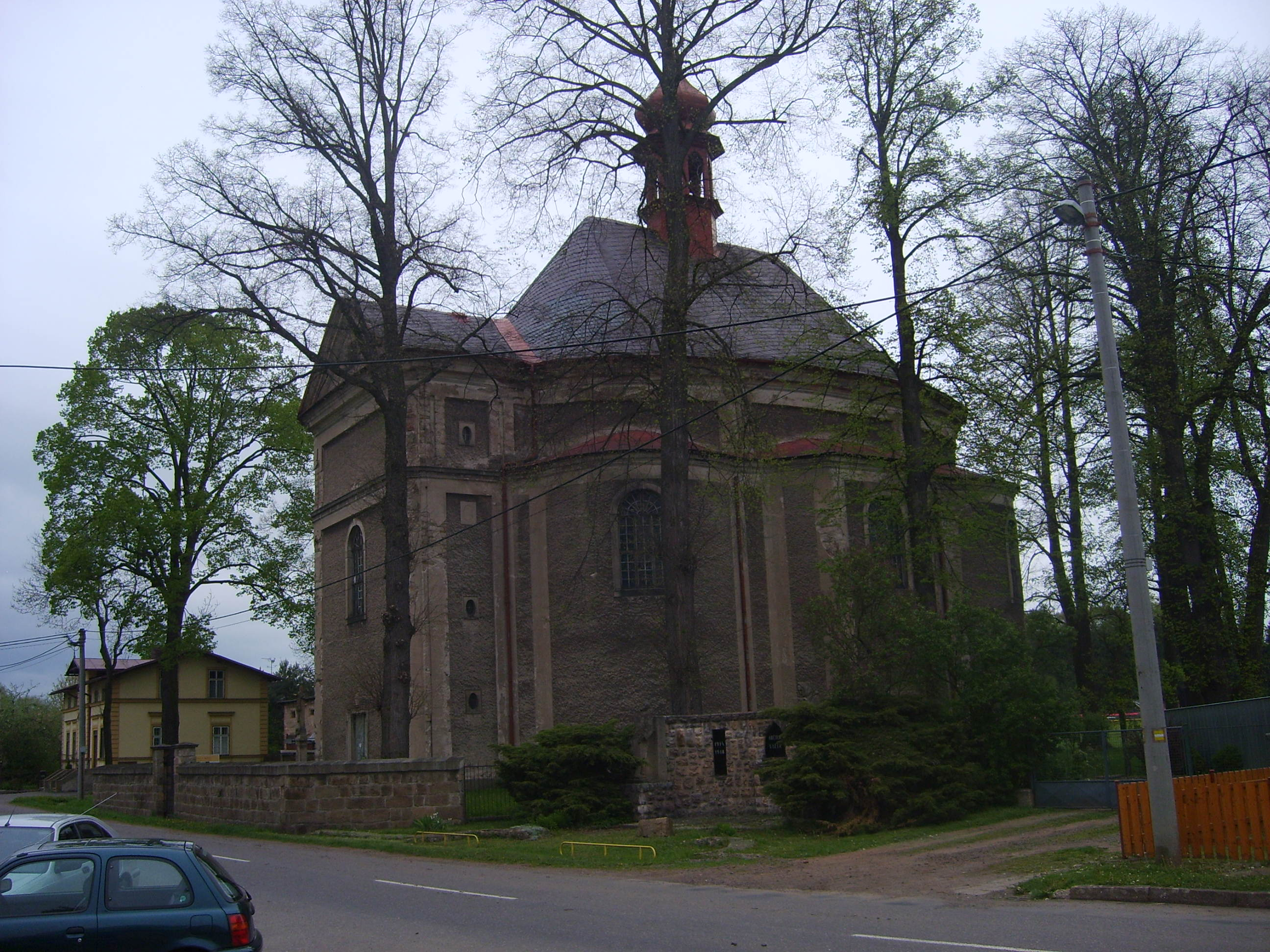 Overall view of Saint Barbara church in Otovice, Czech Republic.